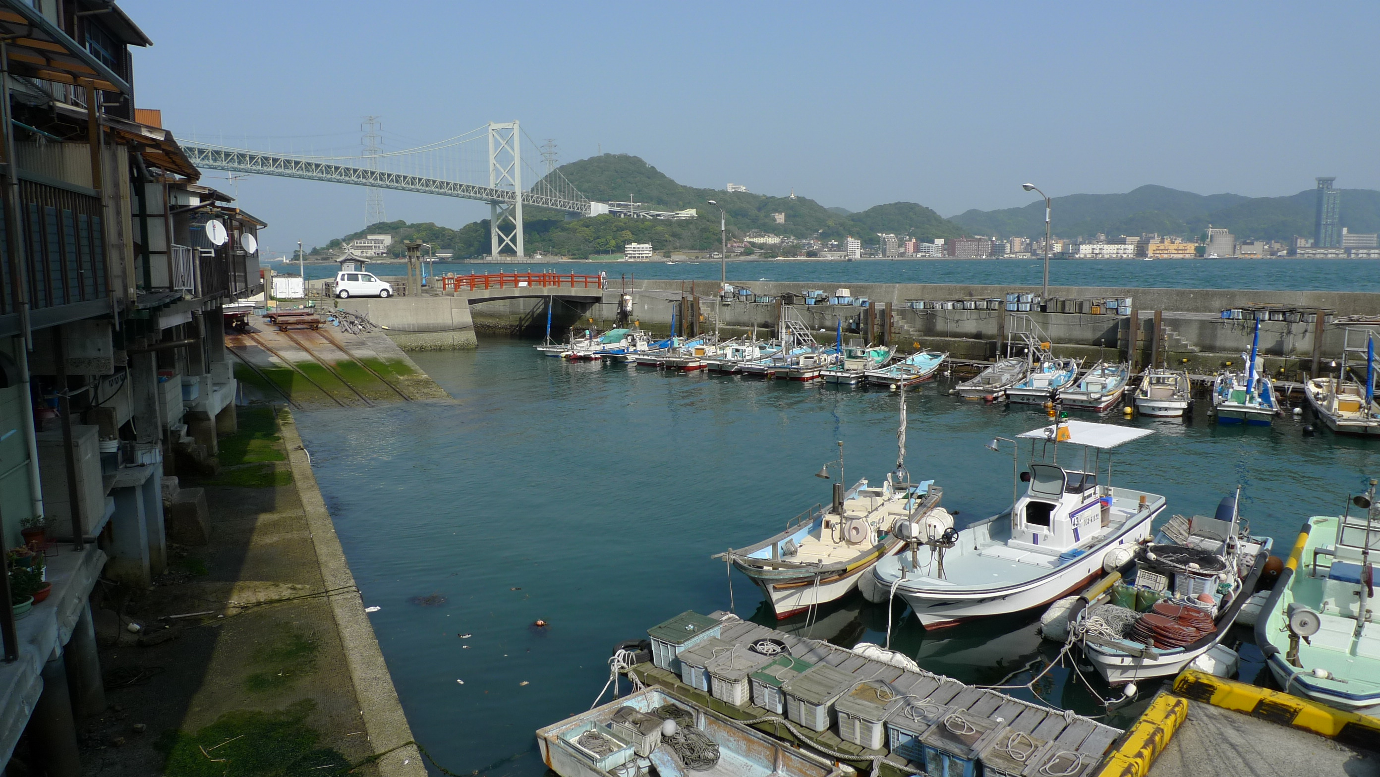 Dannoura fishing port